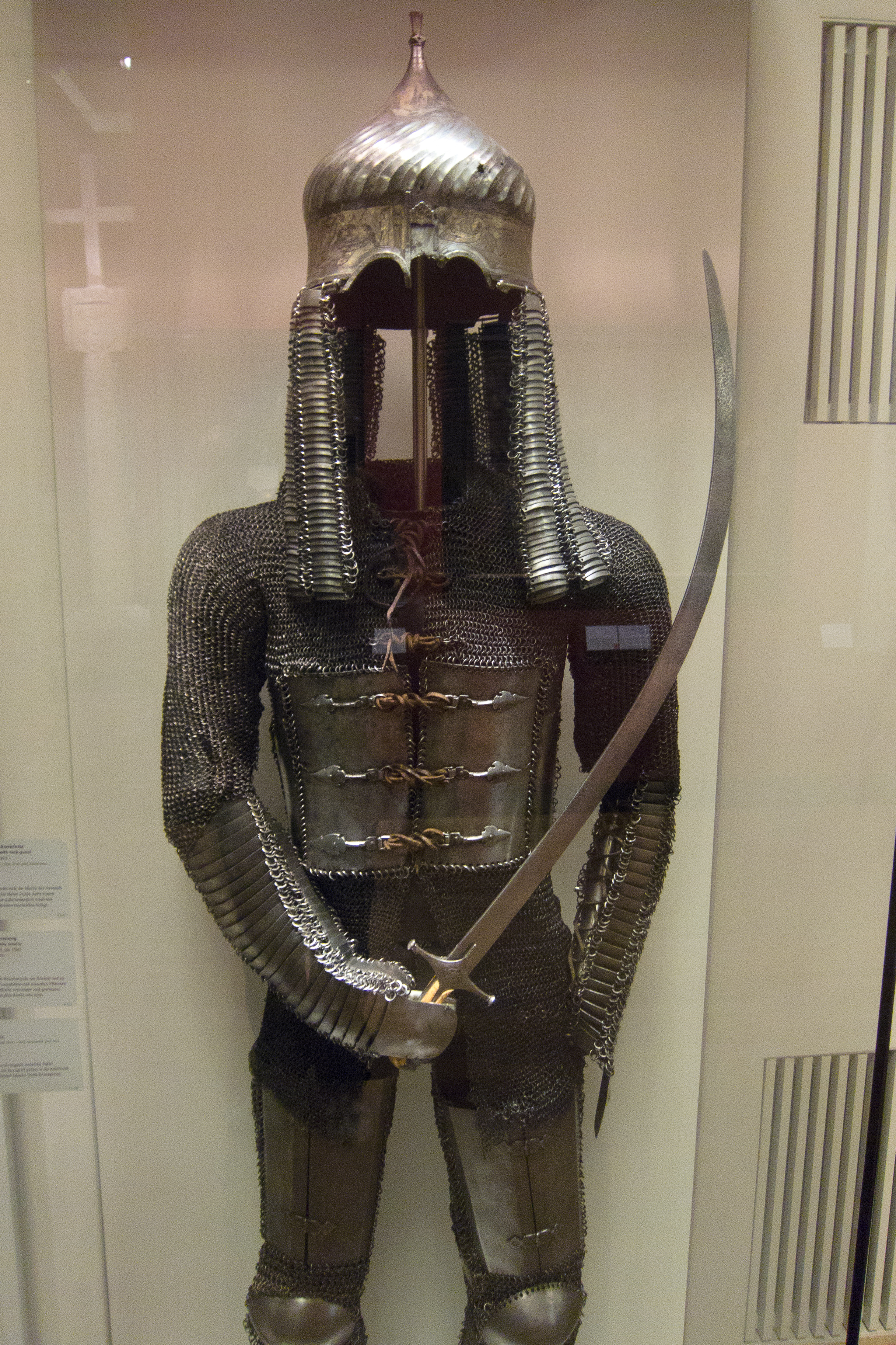 Suit of mail, exhibited at Deutsches Historisches Museum in Berlin, there are several inaccuracies in this display, first on the arms there is a pair of kolcak (greaves or shin armor), these should be worn on the shins instead of on the arms, there should be a pair of bazu band (arm guards) on the arms instead. The second inaccuracy is a mail and plate defense hanging from the bottom edge of the helmet, this should be a riveted mail aventail / camail, in the current display someone has mistakenly attached mail and plate armour meant for another part of the body to the lower edge of the helmet, you can see a large vertical unprotected area in the back of the helmet, this would not happen with the proper configuration.